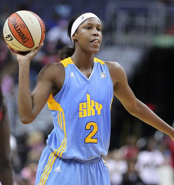 Michelle Snow of the Chicago Sky (at time of photo)